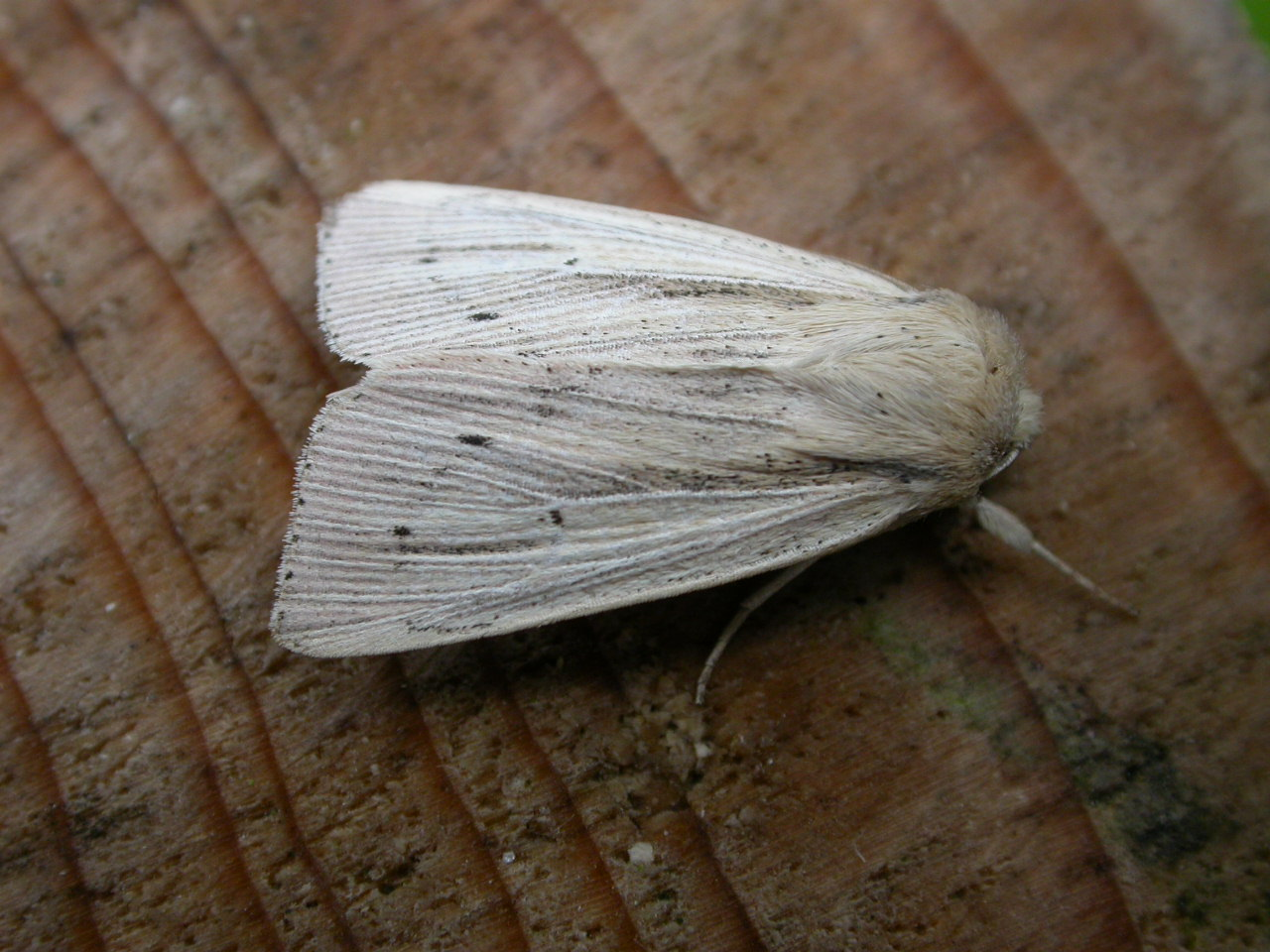 Mythimna straminea, to MV light, Hellerup, Denmark, 26 July 2003